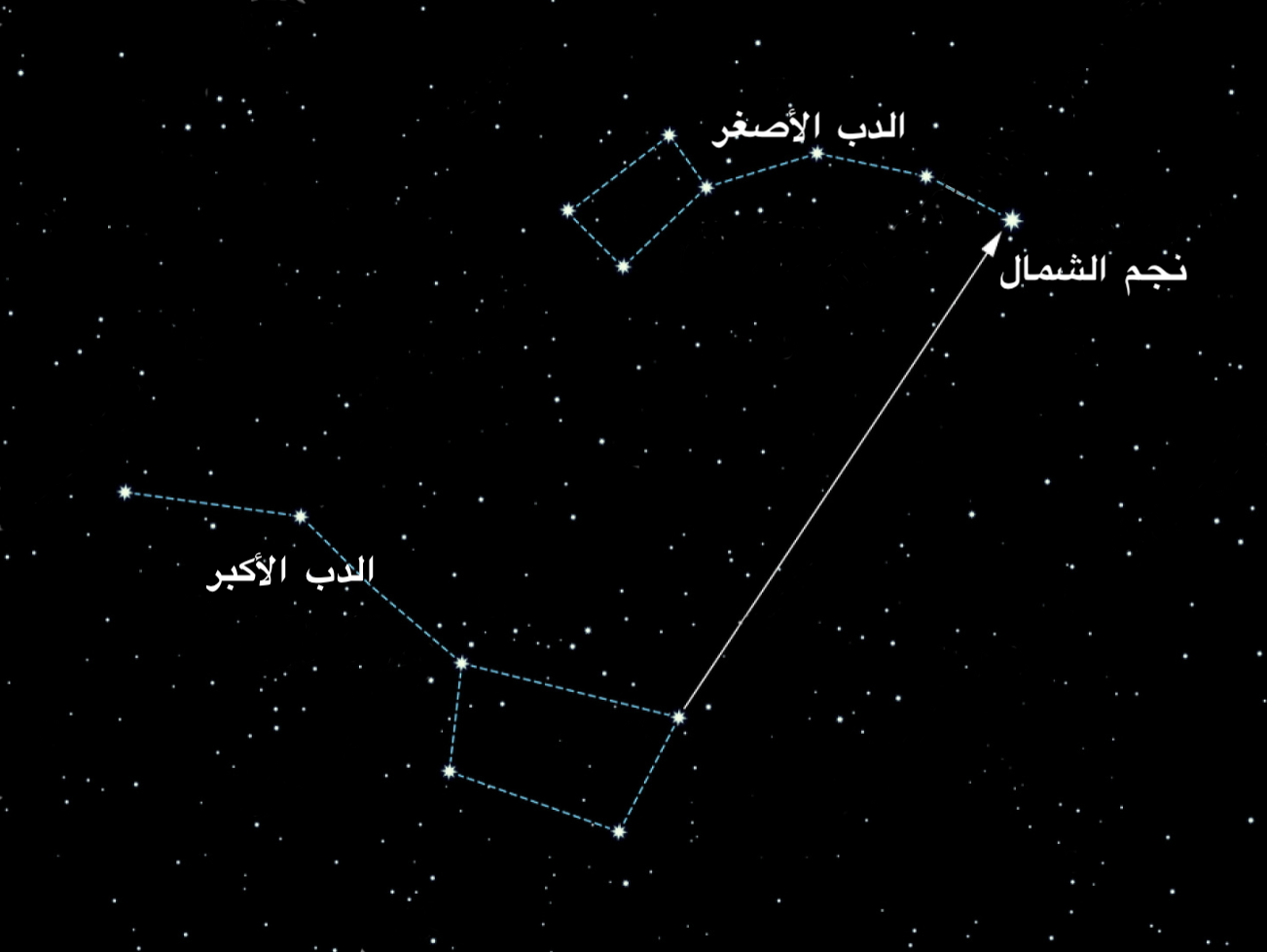 The Ursa major and minor with the Polaris star